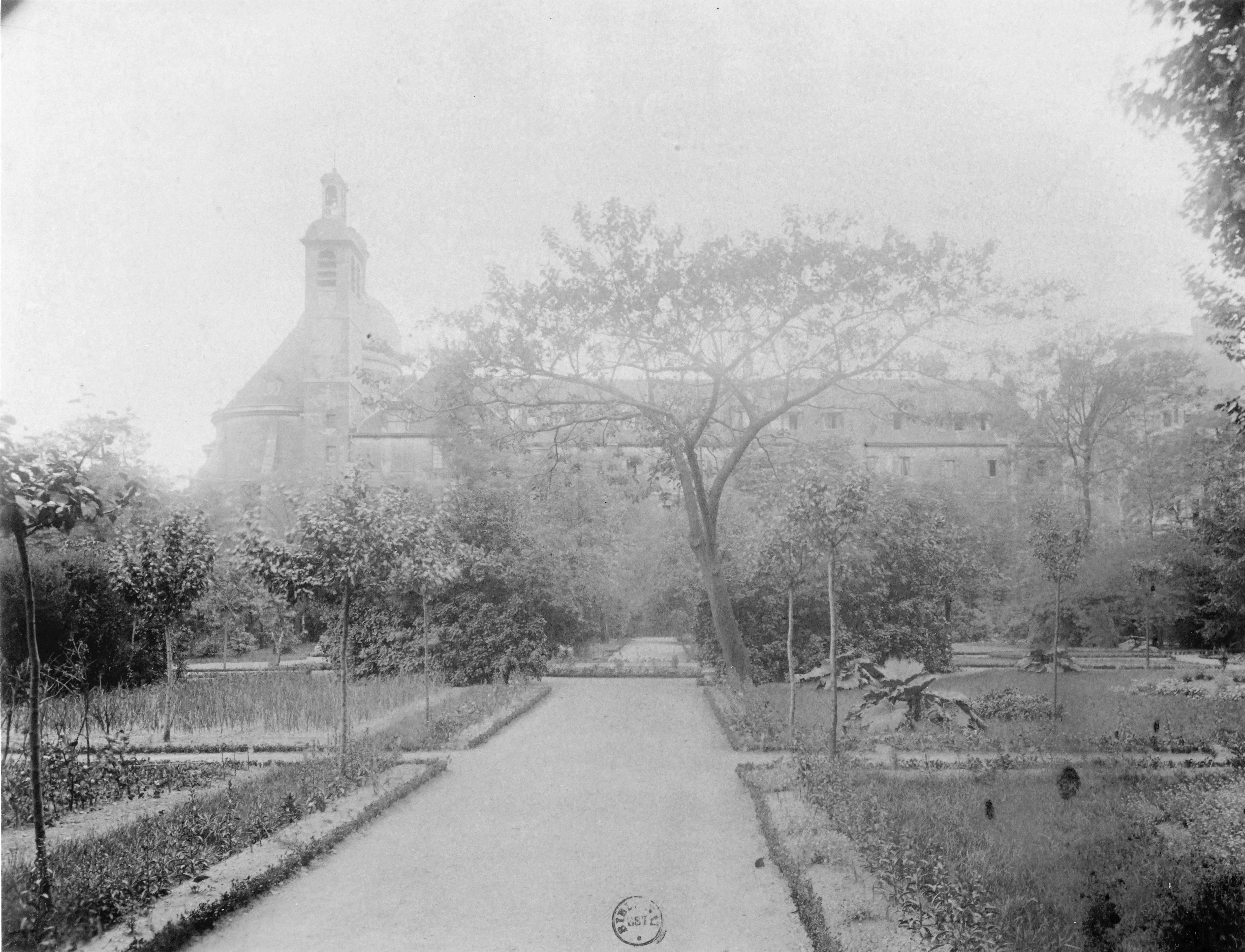 Jardin des Carmes, rue de Vaugirard, Paris.